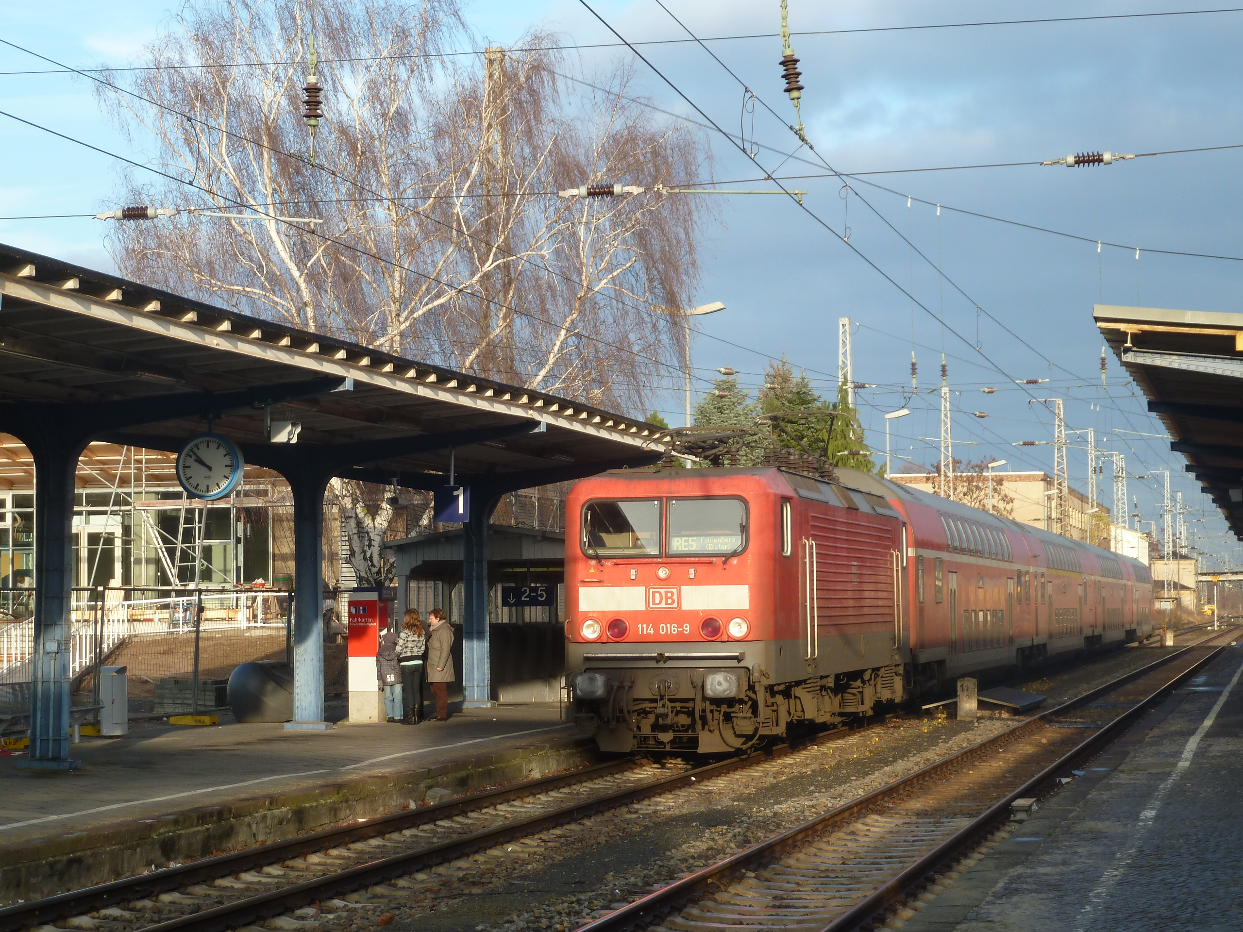 Falkenberg Elster Railway Station, platform 1